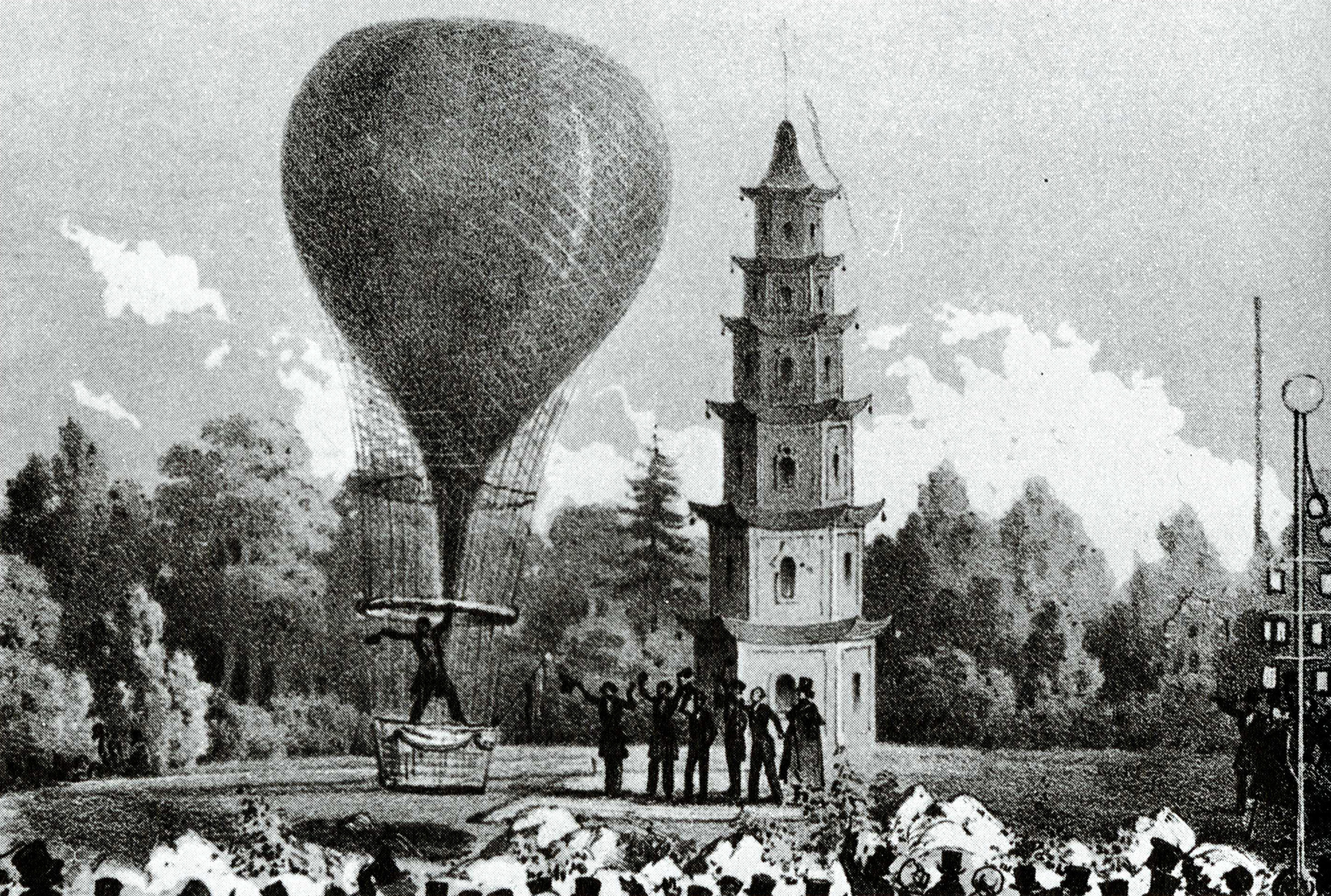 Johann Luzius Islers' Mineral-Water-Establishment in St. Petersburg (ascent of a balloon in 1852)